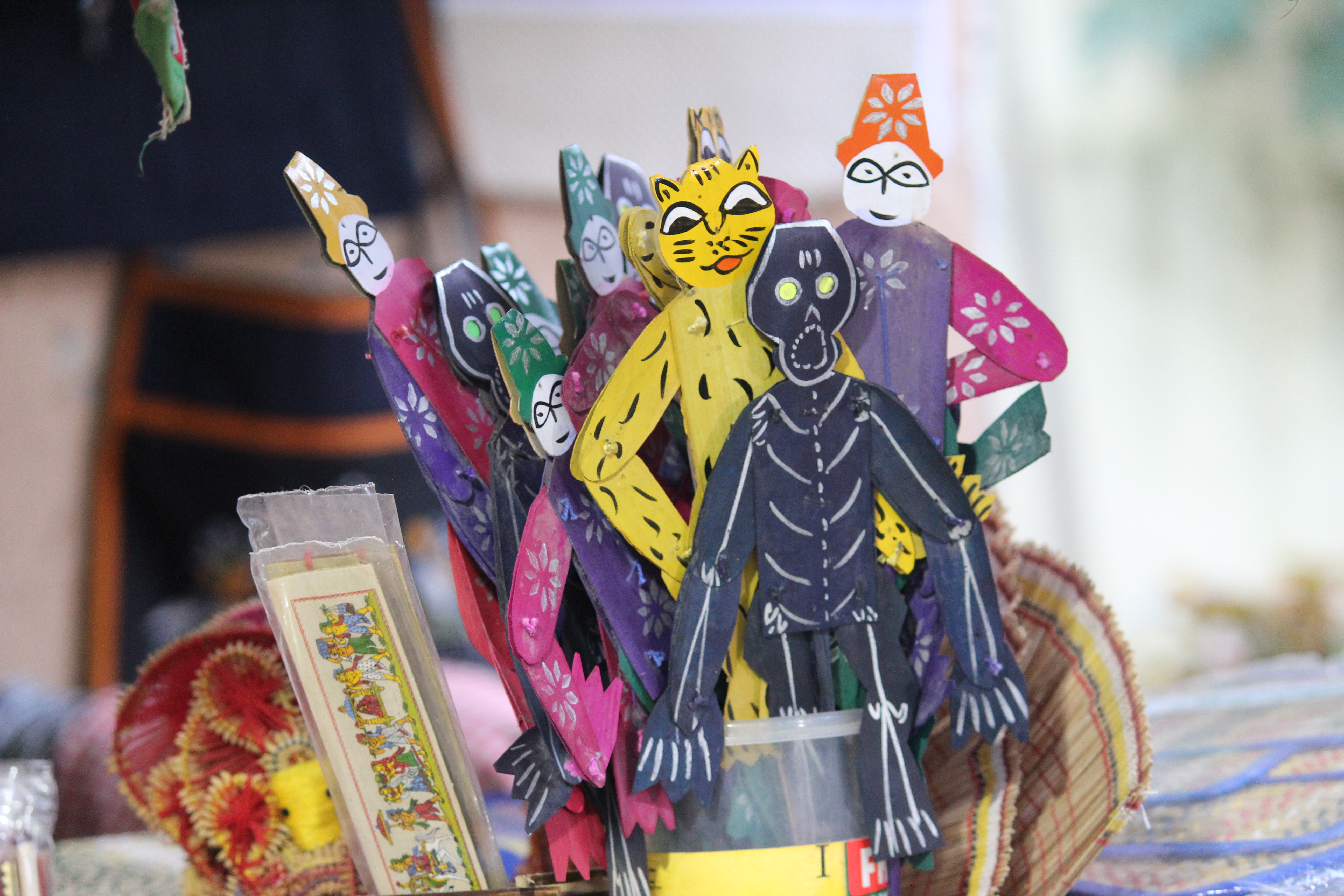 A toy kind of thing made up of palm lead and colours.